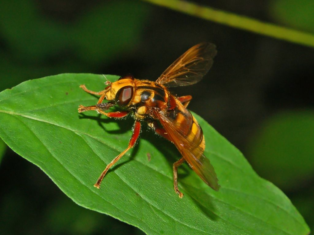 M. crabroniformis